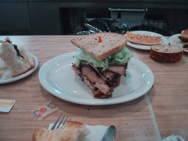 stacked corned beef sandwich at the legendary Rascal House in Miami